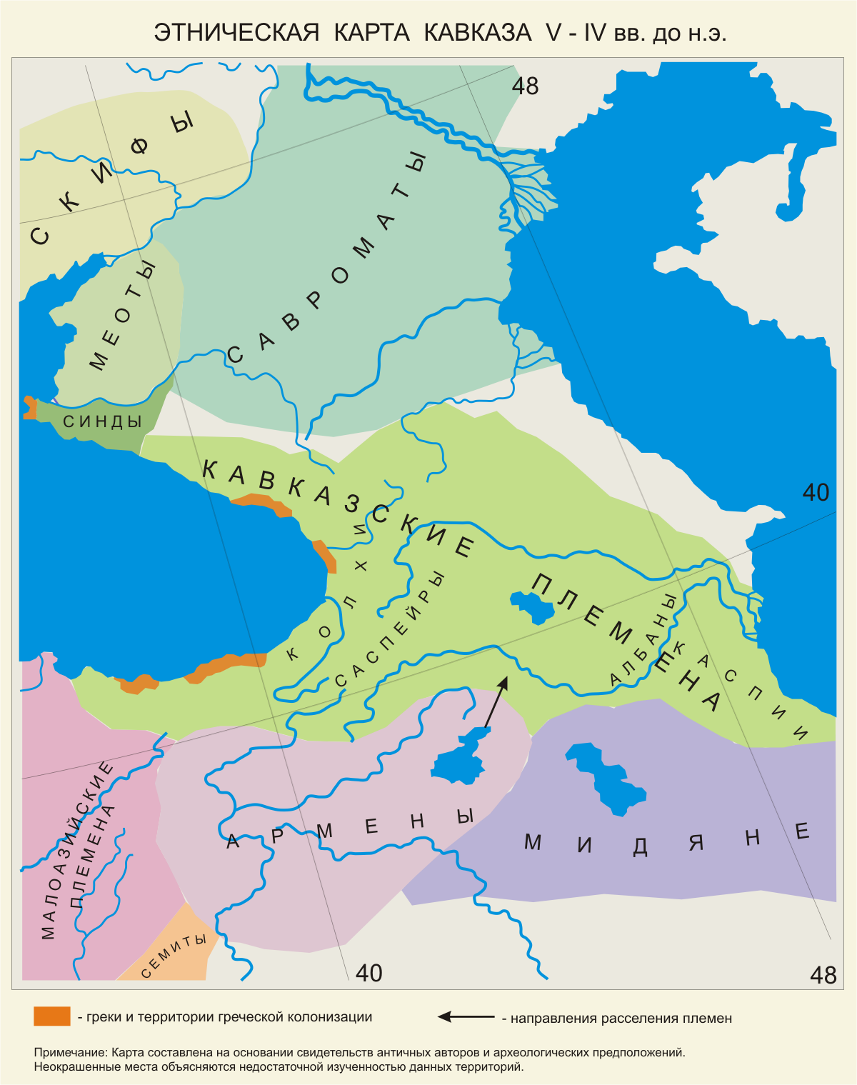 The Ethnic Map of Caucasus - centuries V - IV B.C.E., by "The World History", Vol.2, 1956 г., Russia